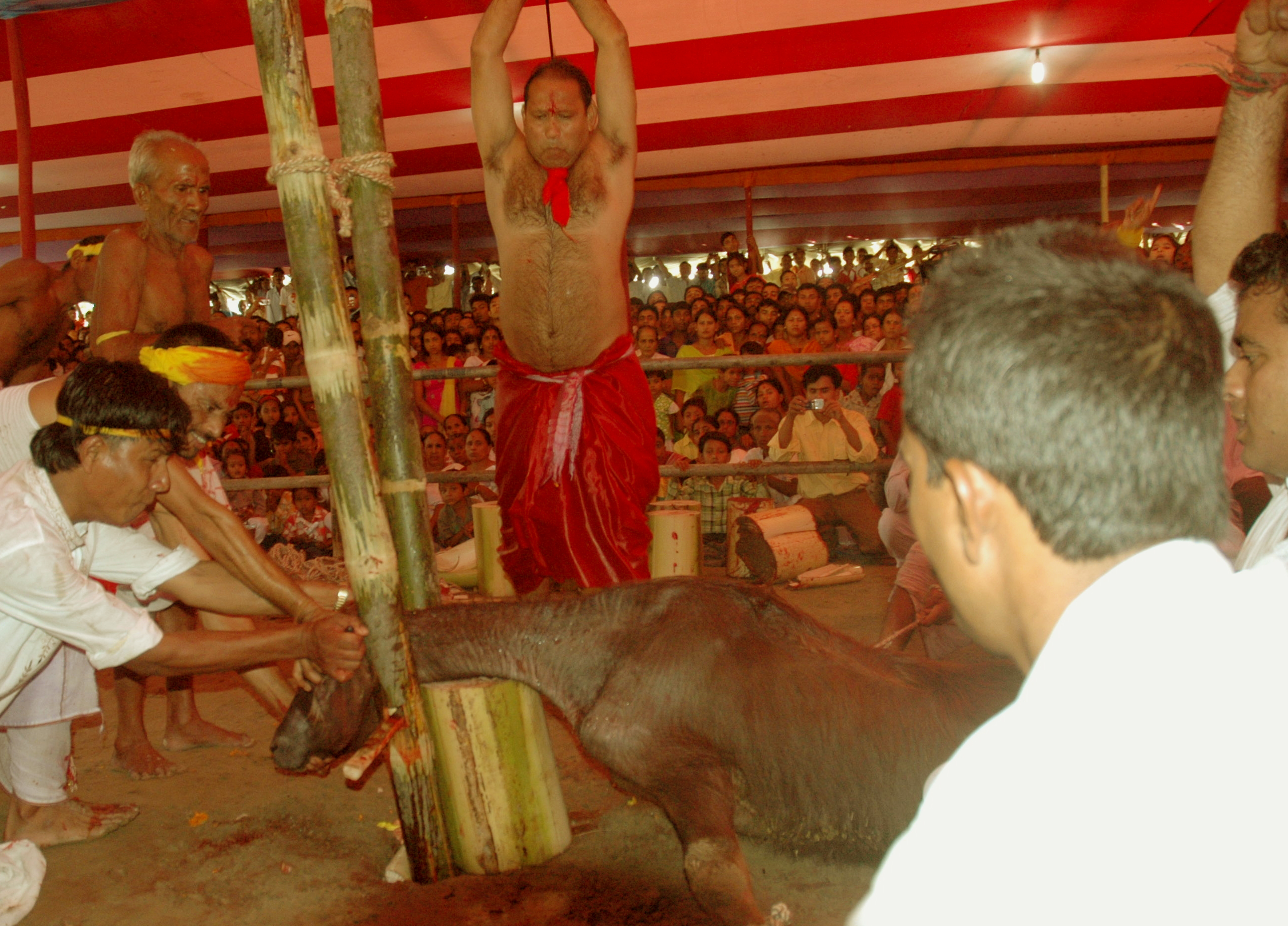 Immolation Sacrifice (Buffalo), Belshwar Kali Mondir, Belshwar, Nalbari, Assam, India